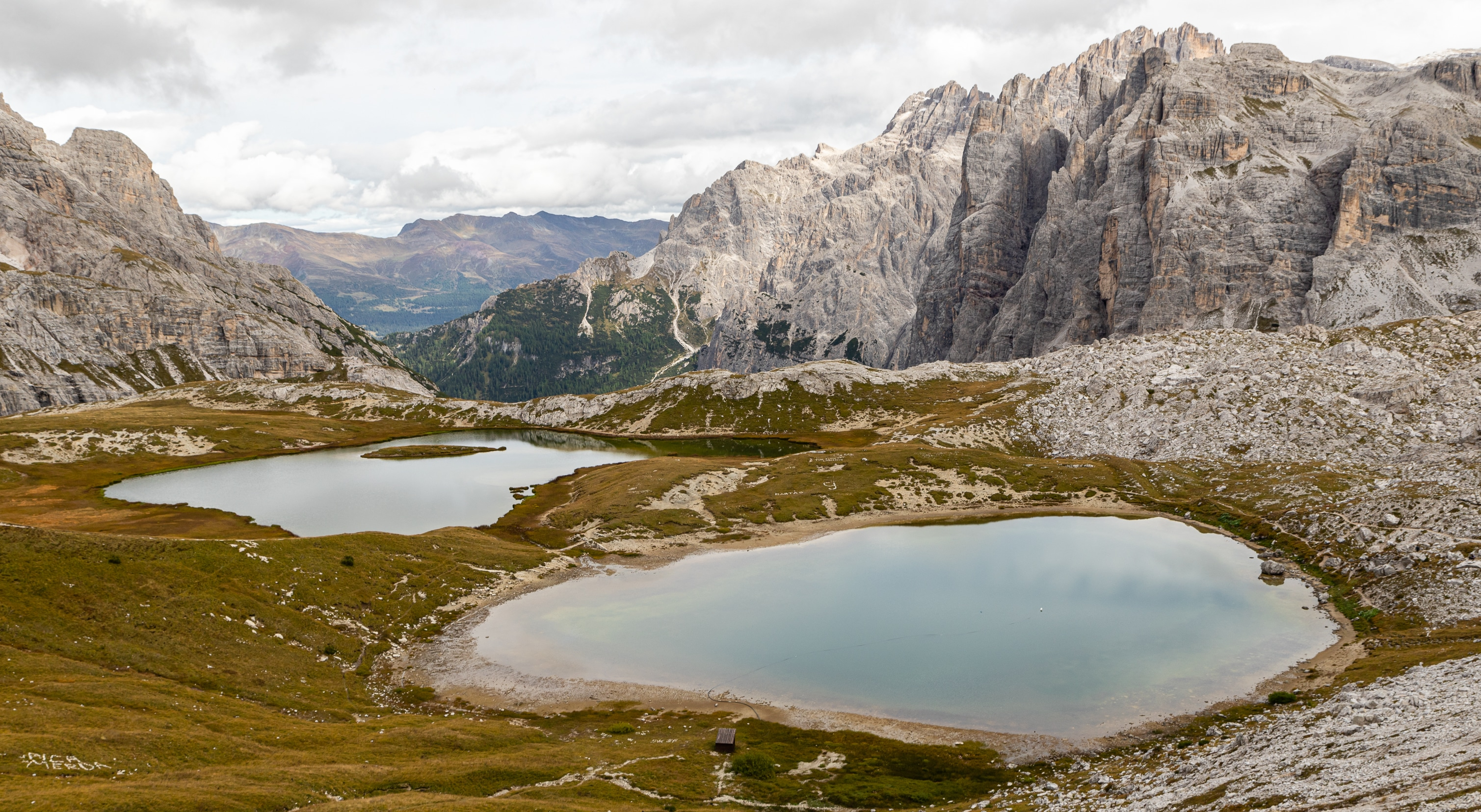 This is a picture of the protected area listed at WDPA under the ID 478641 Title: Approval of the protected landscape ‘Nature Park Sextner Dolomites in the municipalities of Toblach, Sexten and Innichen’ Designation: Böden Seen (upper western lake) Category: Hydrological natural monument: lake Number: NAMH 091_P14 Date of the regulation: 22.12.1981 Description: The Bödenseen are located in a wide alpine hollow (Bödenalm) in the valley head of the Altensteintal. The entire lake basin lies in impermeable Raibl layers, which have led to the formation of water accumulation. The lower (eastern) lake (2207 m above sea level) lies in a boulder-car and has stony shores. It is 160 meters long, 100 meters wide and 2 to 3 meters deep. The upper (western) lake (2335 m above sea level) lies in green alpine pastures and is a bit marshy in places, with cottongrass on the shore. It is actually two lakes connected by a small stream. Both are only 2 to 3 m deep. They are named after the alp that fills a wide ground. The area of the lake area is about 40,000 m². Place: Municipality Sexten, District Pustertal, South Tyrol, Autonomous region Trentino-Alto Adige, Italy Location: From the Talschlusshütte in the Fiscalina Valley to the Antonio Locatelli Hut (Route No. 102) Parcel of land: Bödenalpe